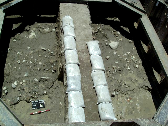 Tell Abu Hawam Excavation 2001 by Haifa University Israel. The head of the expedition was Professor Michal Artzy.